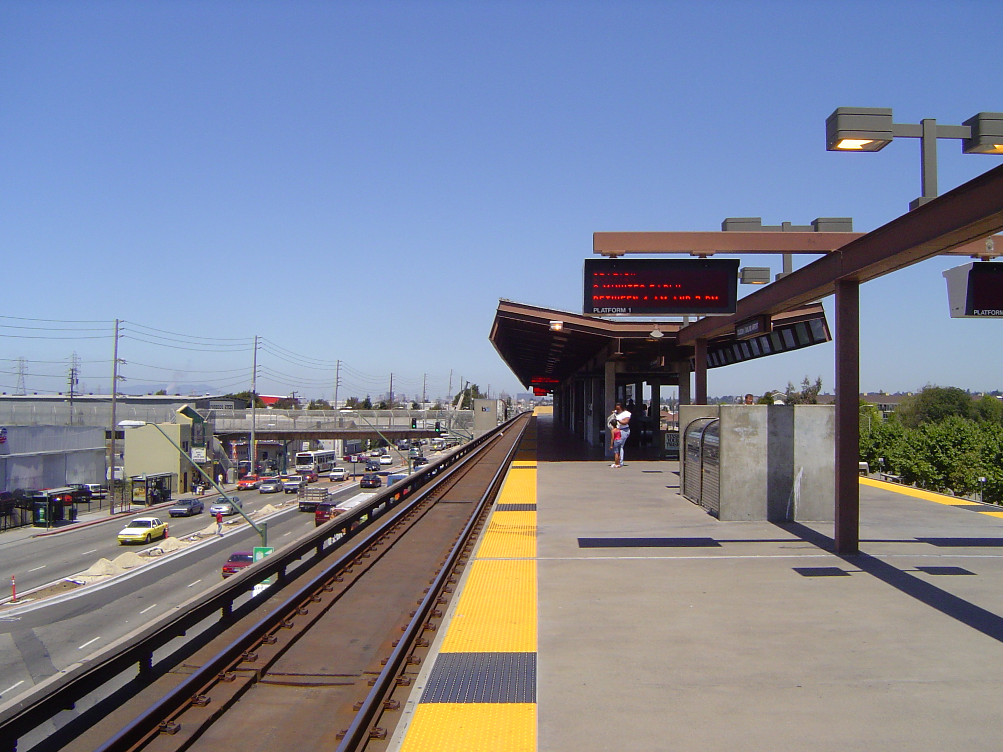 Platform at Coliseum/Oakland Airport station in July 2007